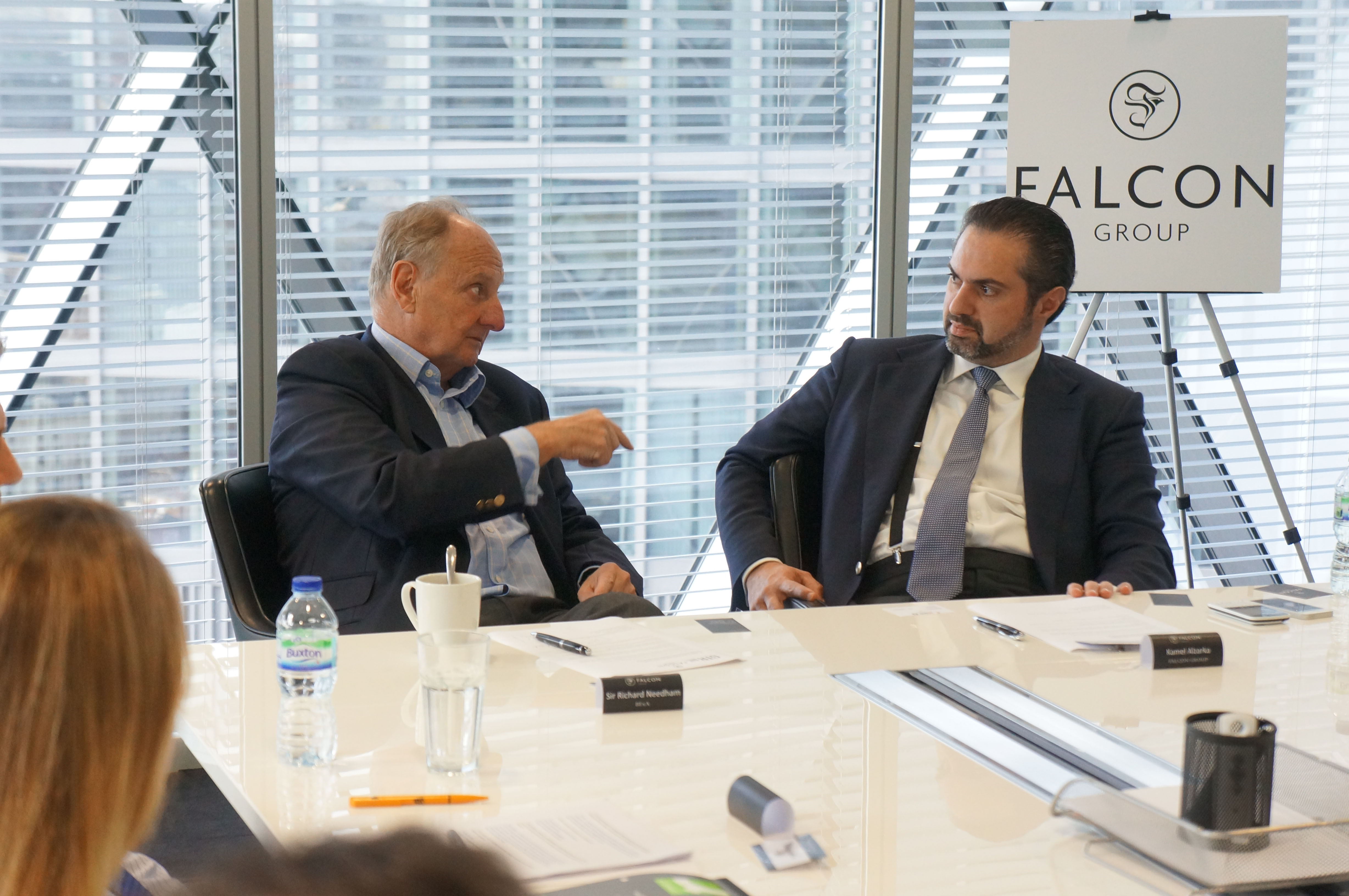 Kamel Alzarka and the Falcon Group welcomed Sir Richard Needham to the 3rd annual trade and corporate finance forum. The attendees that made up the event included many influential and acclaimed financial figures from around the world. Pictured here is Sir Richard Needham (left) and Kamel Alzarka (right). The venue for the event was the Madinat Jumeirah Hotel in Dubai. This was a venue chosen by Kamel Alzarka.